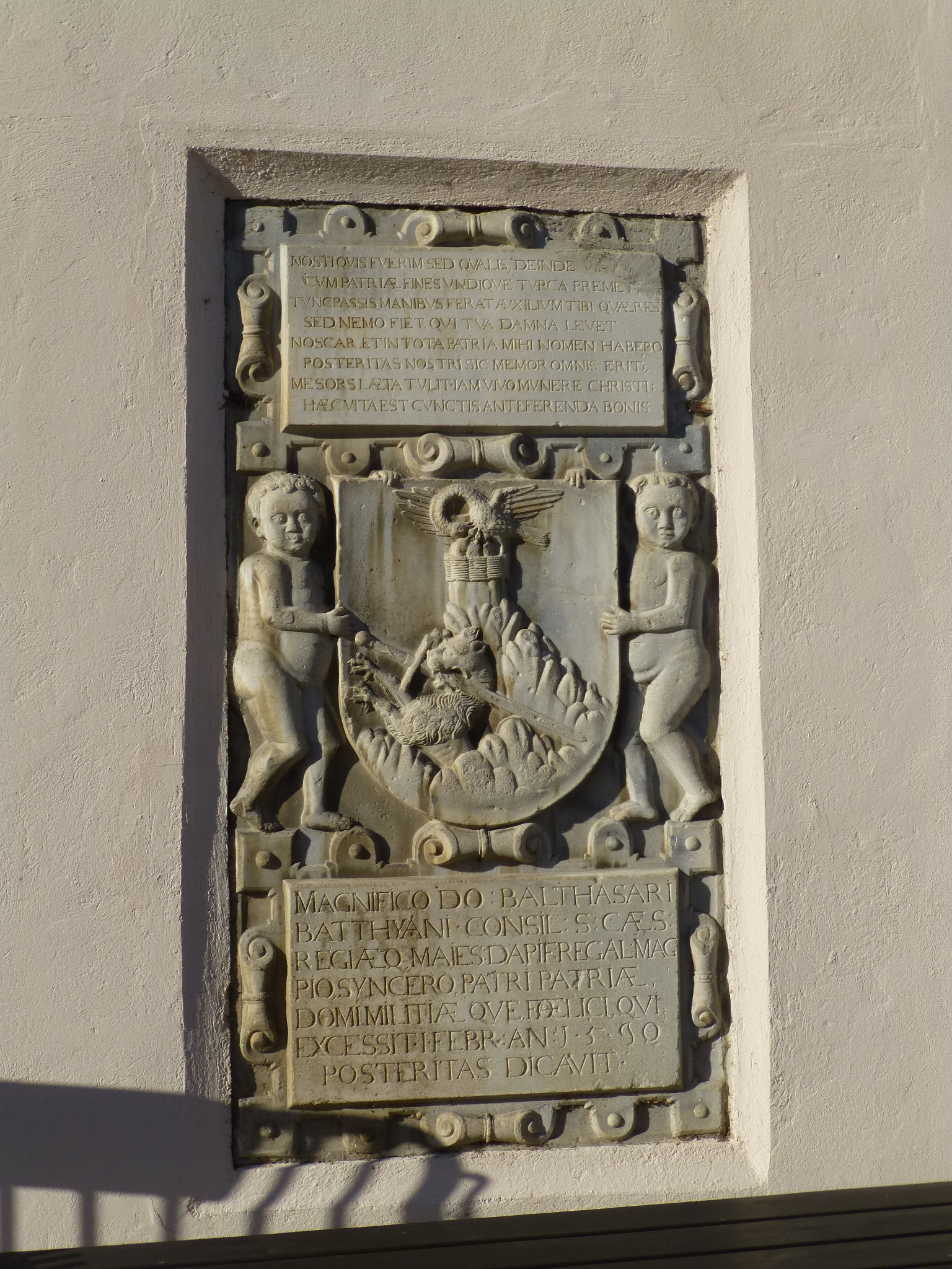 Carved historical relief at the Franciscan abbey, Güssing, Burgenland, Austria.